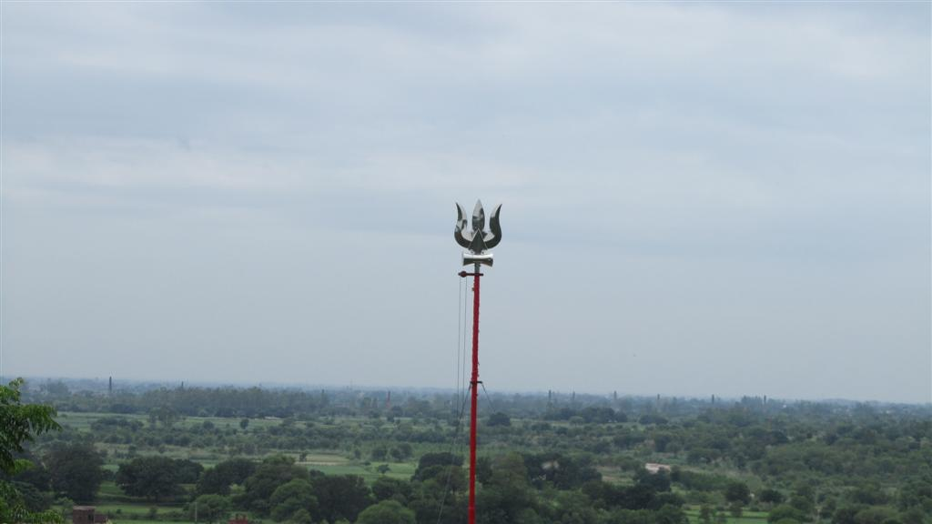 View from the stairs, coming down the temple stairs, Jayanti Devi temple